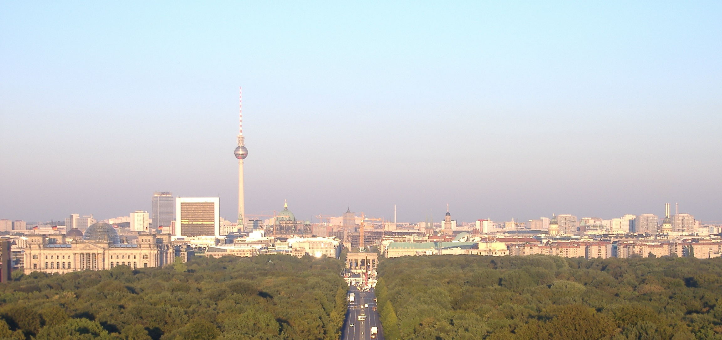 Berlin - view from Siegessäule with viewing direction east during sunset